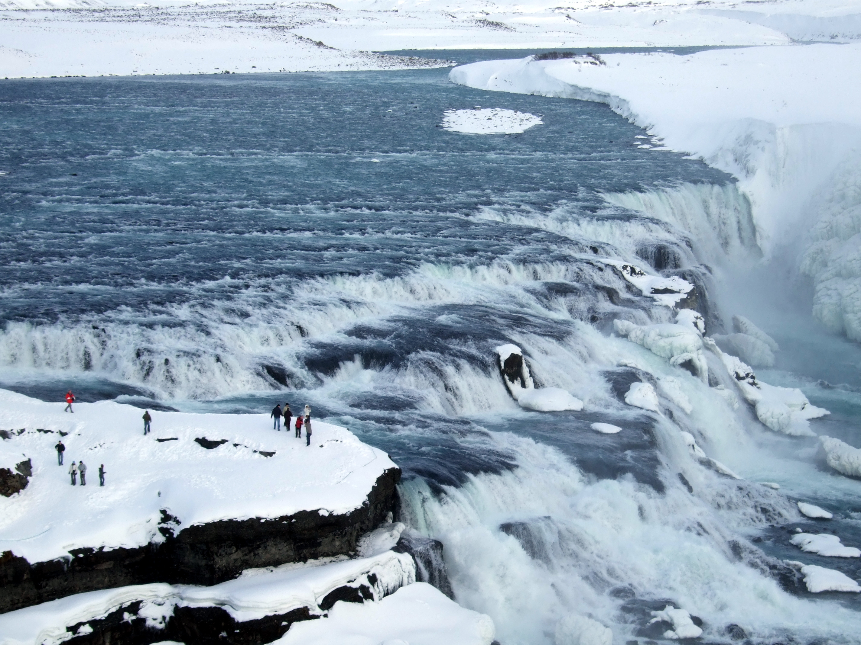 The waterfall Gullfoss in the canyon of Hvítá river in southwest Iceland, March 09, 2008